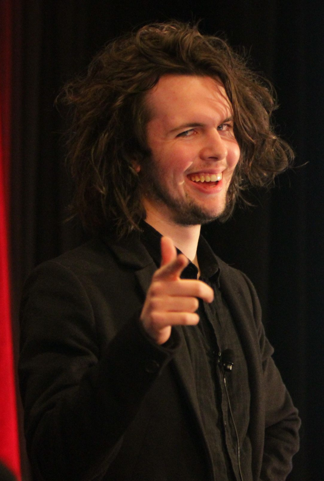 William Pugh at the Game Developers Conference 2015 →This file has been extracted from another file: William Pugh - Game Developers Conference 2015.jpg